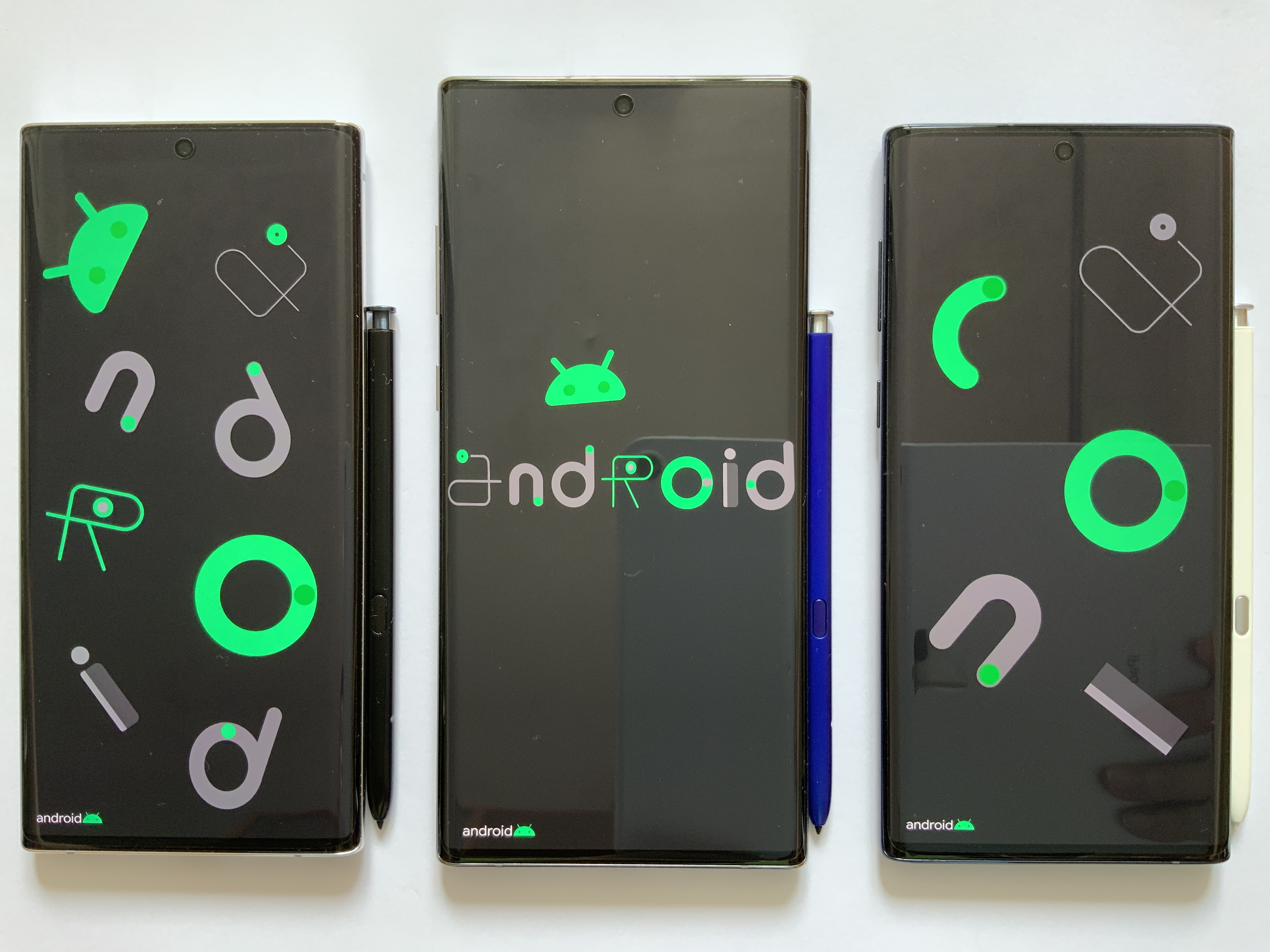 SAMSUNG Galaxy Note10 SAMSUNG Galaxy Note10 5G SAMSUNG Galaxy Note10+ SAMSUNG Galaxy Note10+ 5G